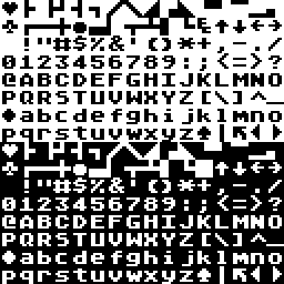 Self-created matrix containing the entire visible ATASCII character set, both normal and inverse, upscaled to 2x to better show details.